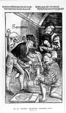 Amputation